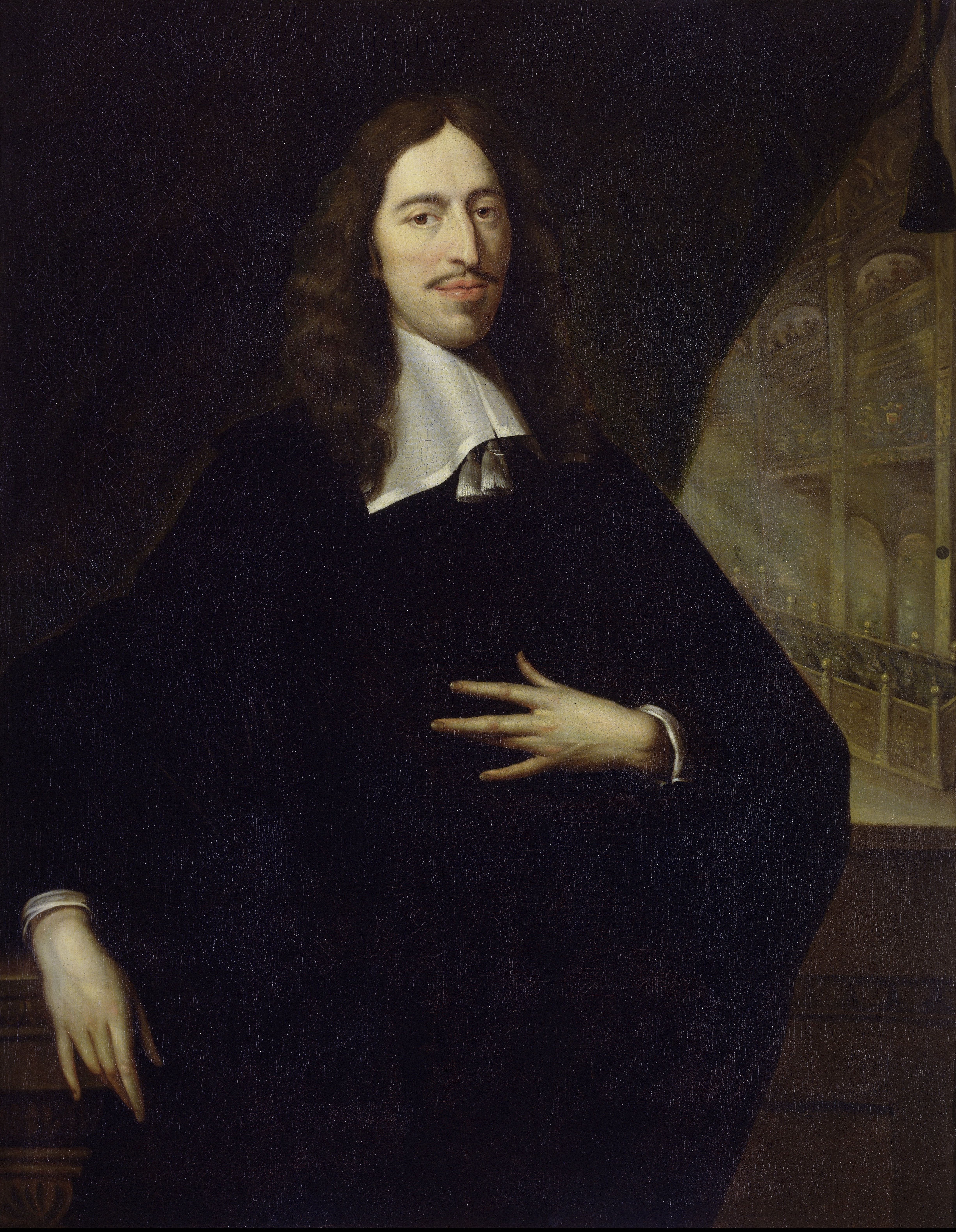 Portrait of Johan de Witt, Grand Pensionary of Holland. In the background the chamber of the States of Holland, built in 1650.